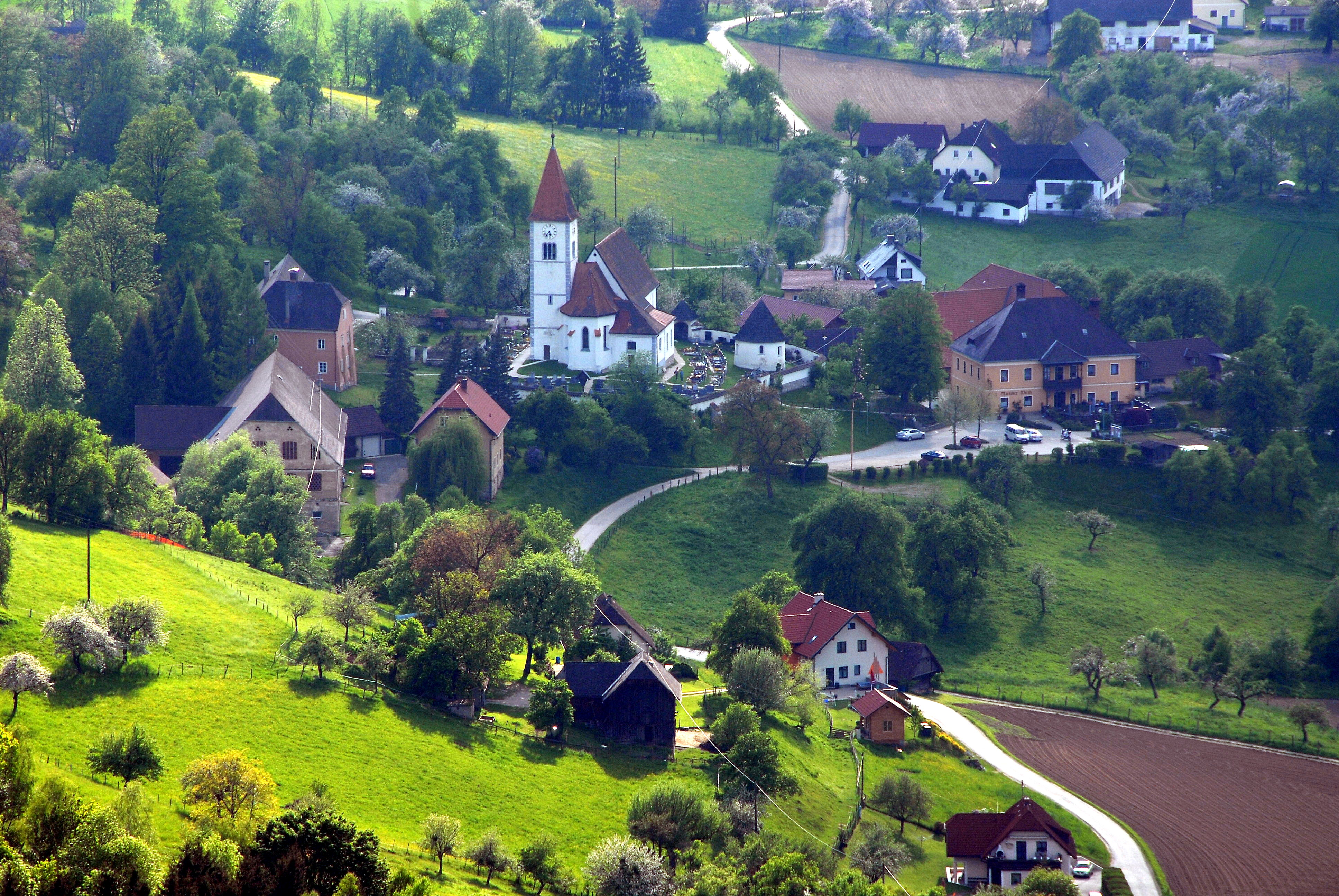 View from the castle-ruin Rabenstein at Saint Martin in the valley Granitz, community Saint Paul im Lavanttal, district Wolfsberg, Carinthia, Austria